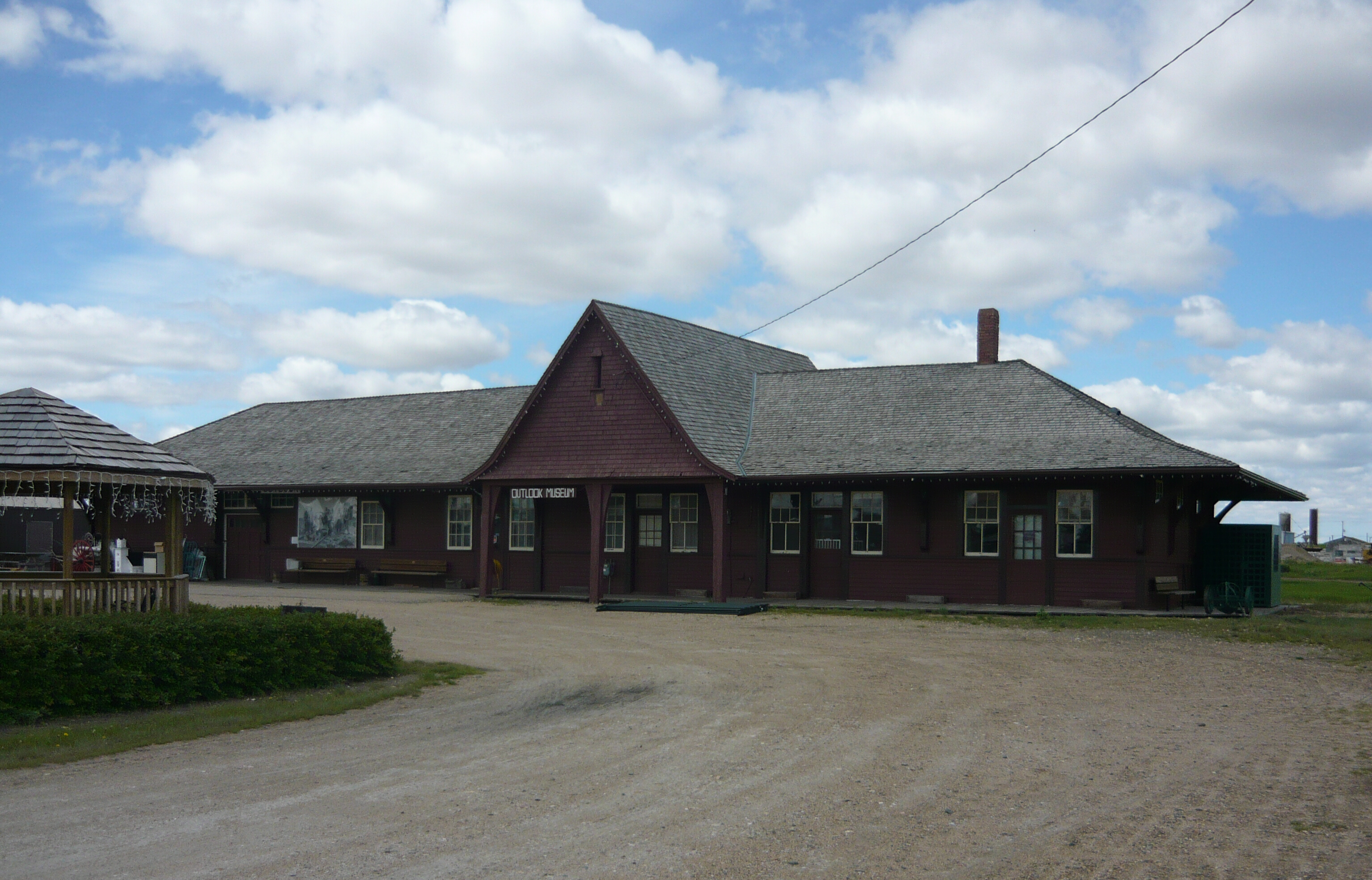 Former Canadian Pacific Railway station at Outlook, Saskatchewan, Canada. Opened 1909. Now the site of the Outlook and District Heritage Museum.